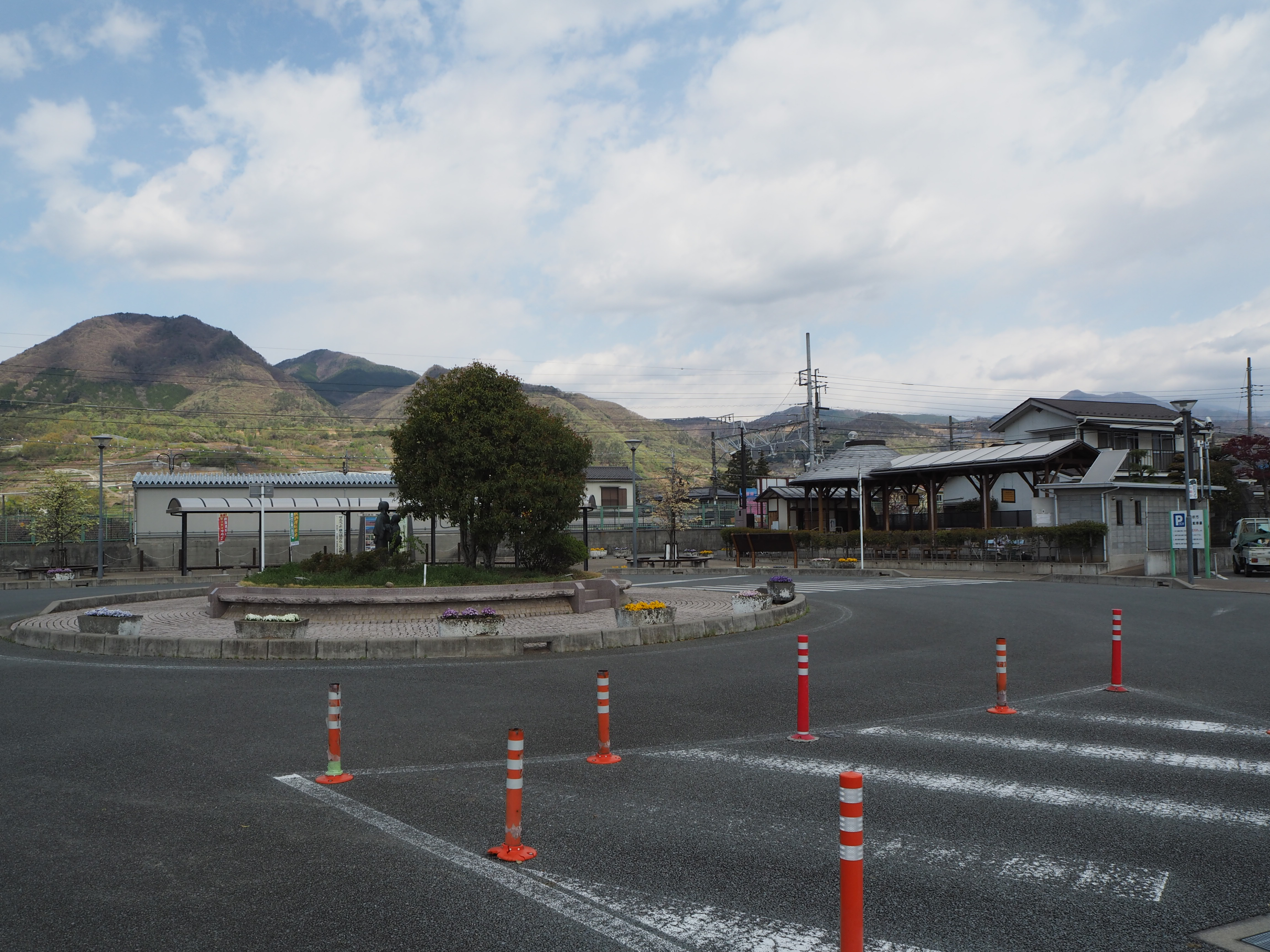 In front of Kasugaichō Station